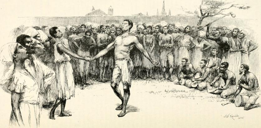 Dancing in Congo Square. 1886 illustration depicting slave dances in New Orleans 40 some years earlier.